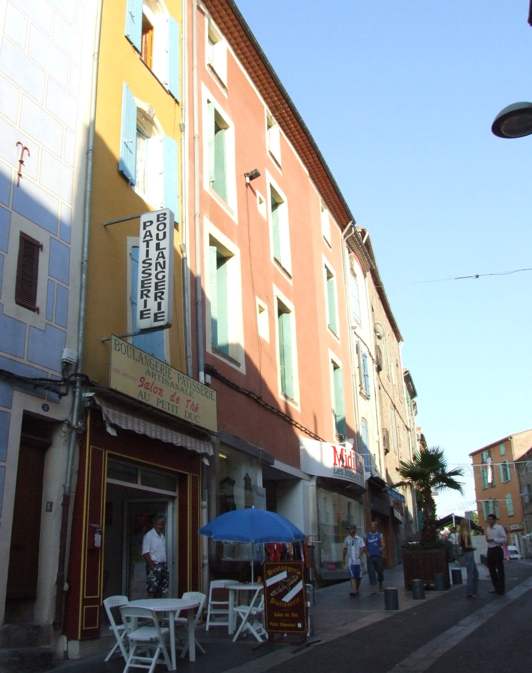 Agde, France